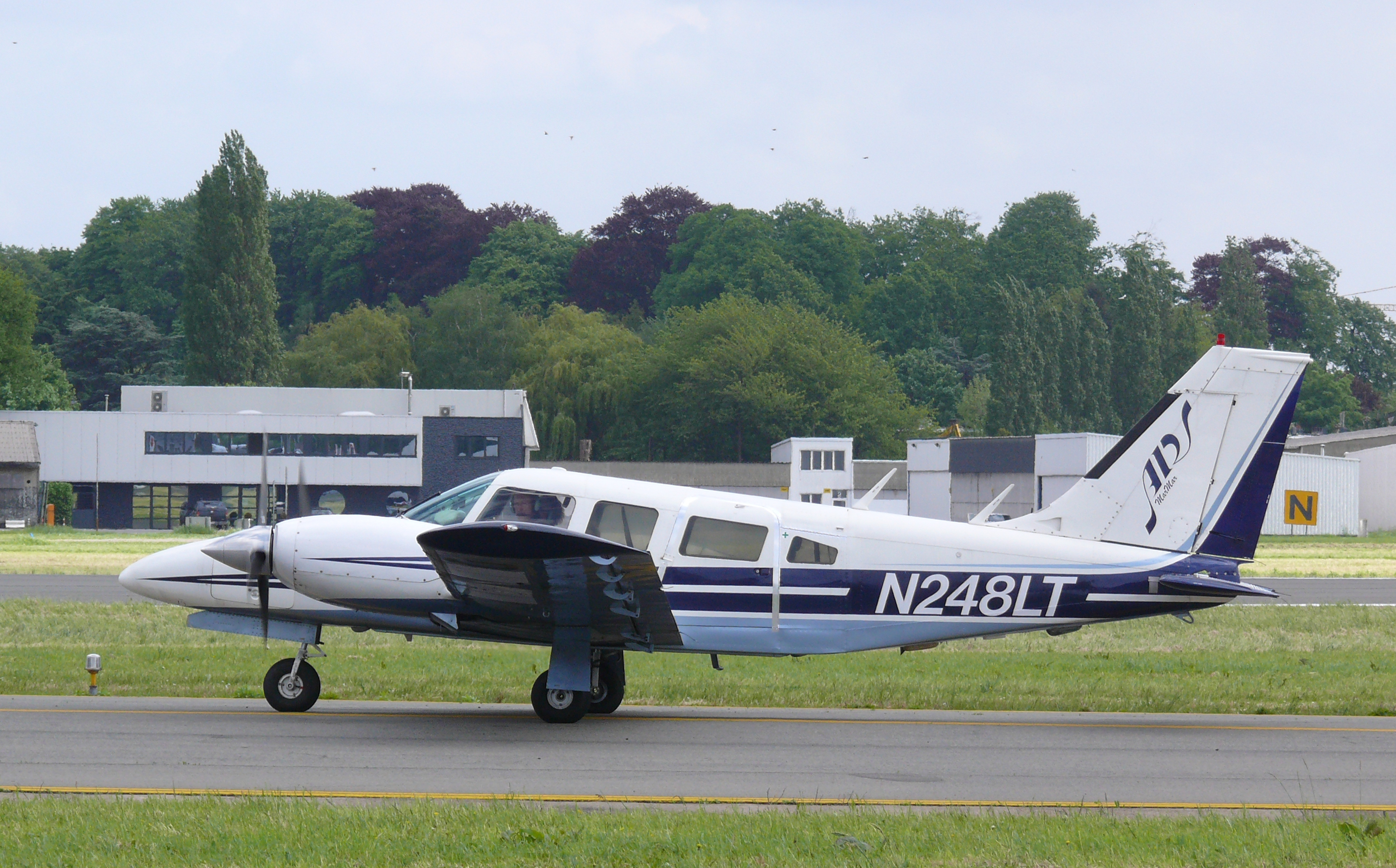 Piper PA-34-200T N248LT (c/n 34-7570104) at the Stampe Fly In 2012.